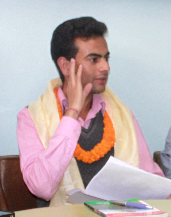 कवि राजेन्द्र तारकिणी